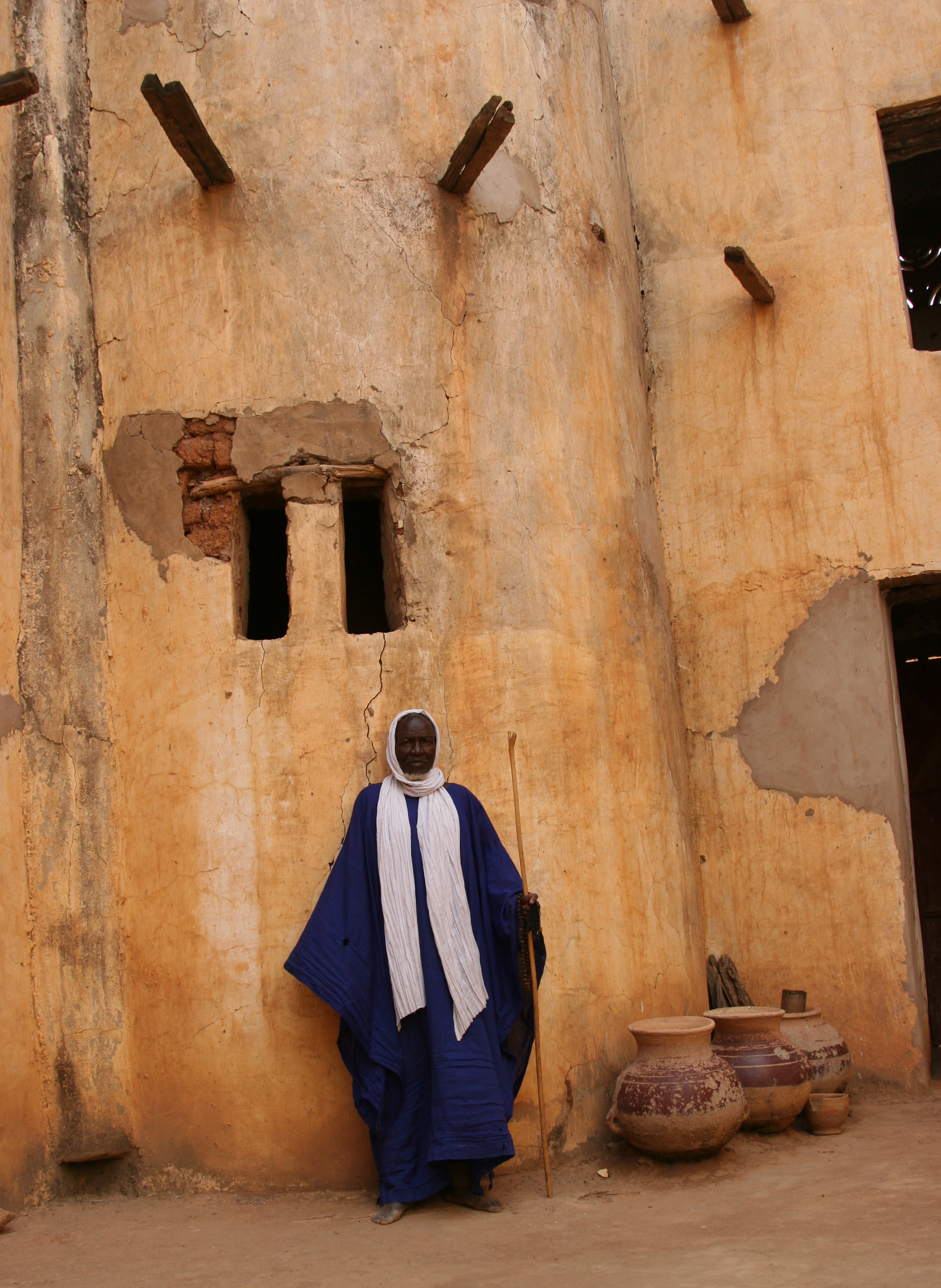 Muezzin in his mosque in Mali